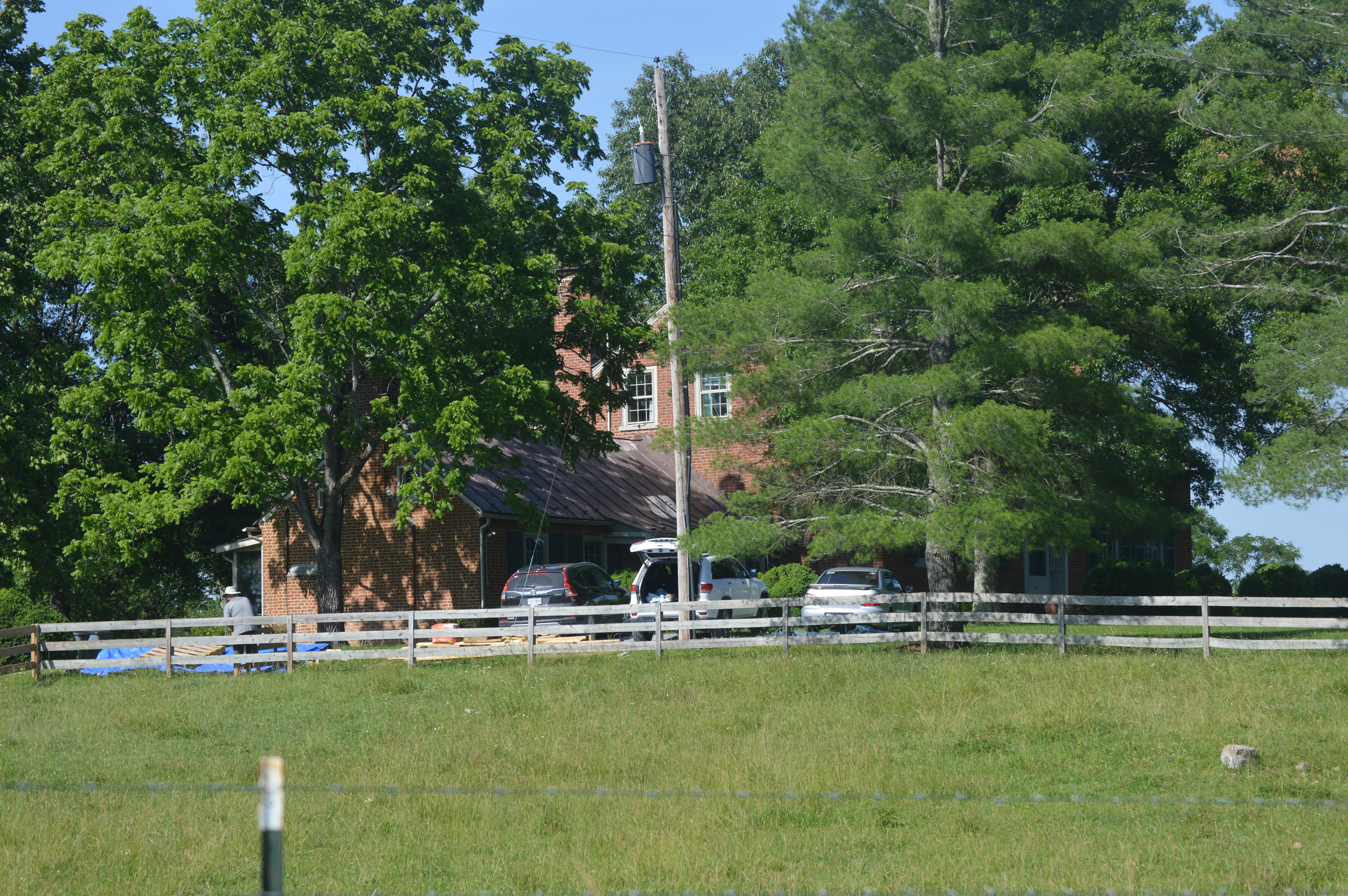 Western side of Hawthorne Hall, located on Hawthorne Hall Road north of Fincastle in Botetourt County, Virginia, United States. Built in 1824, it is listed on the National Register of Historic Places.